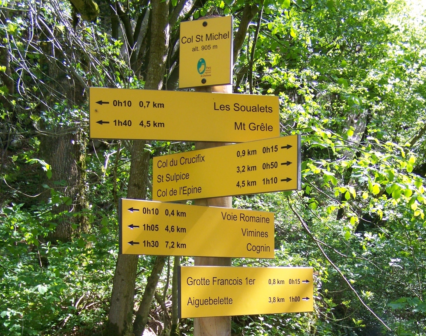 Footpaths signage at the col Saint Michel pass (905 meters high) on the heights of Chambéry in Savoie, France.